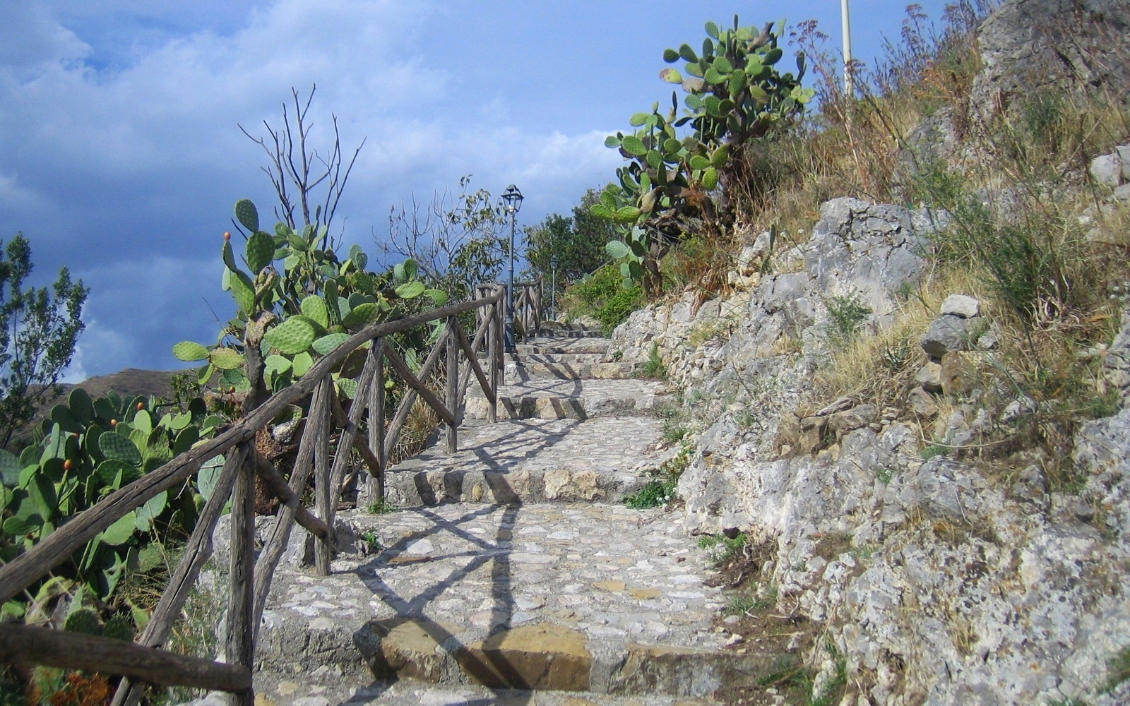 Historic path of Saracens in mountains between Taormina and Castelmola. The renovated path is easy to walk. (Sicily, Italy)